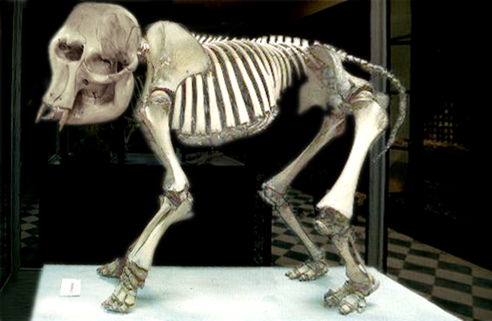 Skeleton of a young Loxodonta africana (NOT of Elephas (Paleoloxodon) melitensis !!!), Ghar Dalam Museum. This media is about Maltese cultural property with inventory number 29.